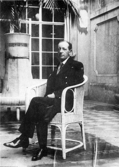 Sir John Oliver Wardrop, KBE, CMG (1864-1948) was a British diplomat, traveller and translator, primarily known as the United Kingdom's first Chief Commissioner of Transcaucasus in Georgia, 1919-21, and also as the founder and benefactor of Kartvelian studies at Oxford University.